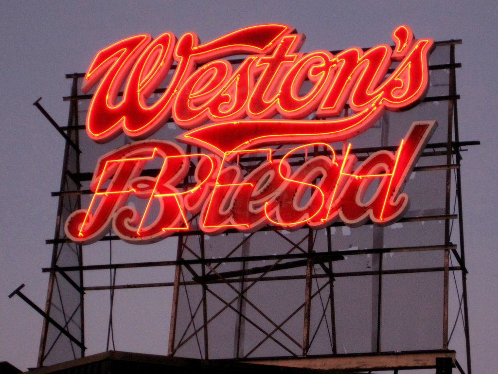 The iconic neon sign atop the Weston's bakery in Kitchener, Ontario.